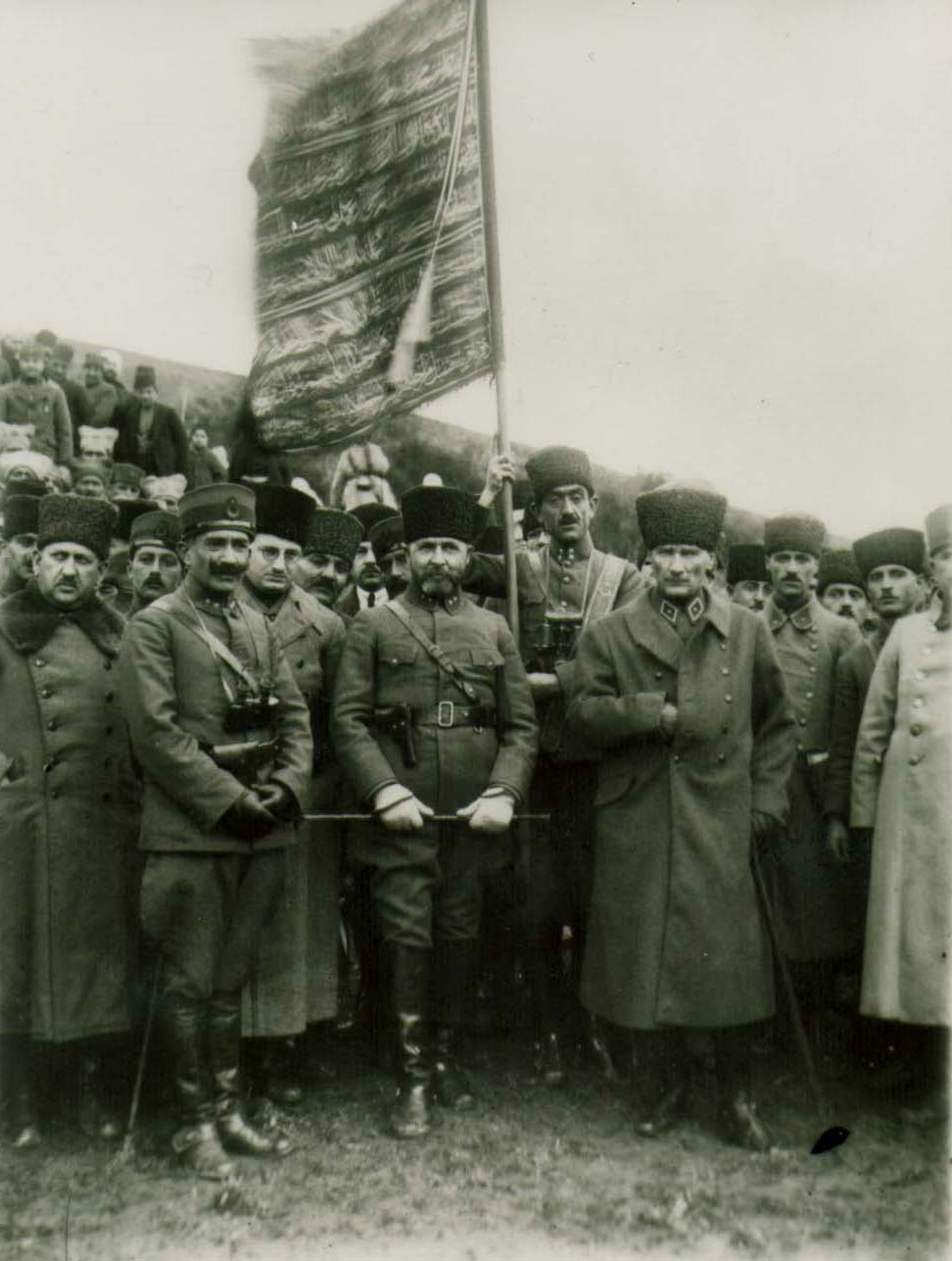 Mustafa Kemal Pasha (Atatürk), Nureddin Pasha's (Konyar) inspection of 2nd Heavy Artillery Regiment. From left to right: Staff Colonel Şefik Bey (Türsan), Lieutenant-Colonel Vehbi Bey (Kocagüney), aide-de-camp Muzaffer Kılıç, aide-de-camp Mahmut (Soydan), Nureddin Pasha, Mustafa Kemal Pasha, staff Cevdet Kerim (İncedayı), Kâzım Karabekir Pasha.